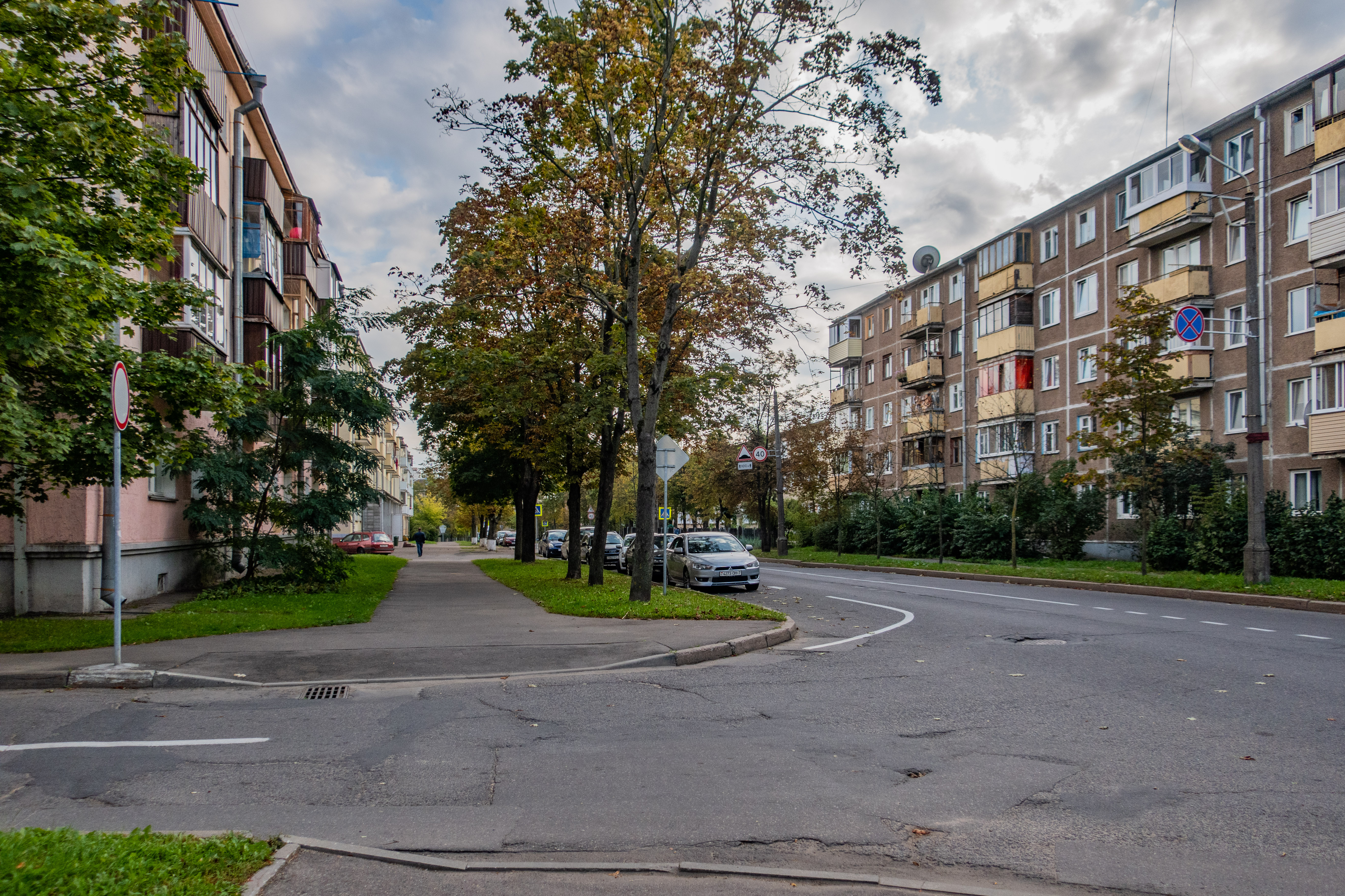 Ščarbakova street. Minsk, Belarus